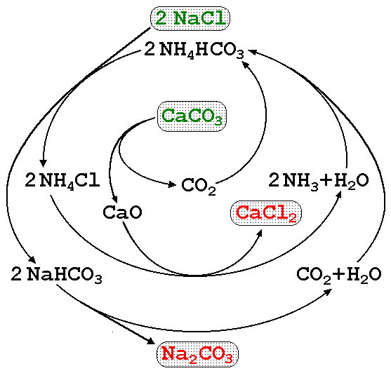 The Solvay process of sodium carbonate production as an example of a closed production circle in chemical industry